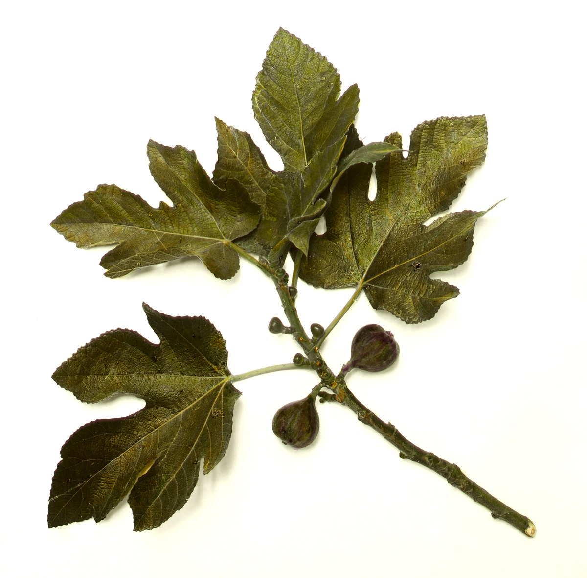 Trees and shrubs. First and second figs.